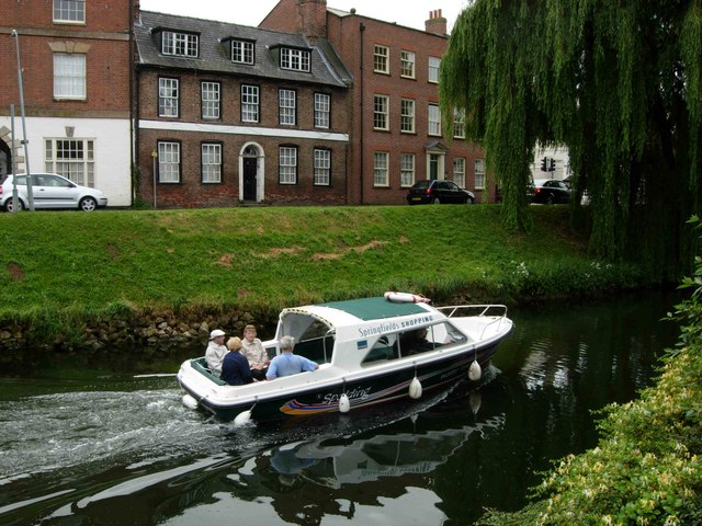 Spalding Water Taxi. The Spalding Water Taxi runs from here on the River Welland in the town centre to Springfields about every 40 minutes.